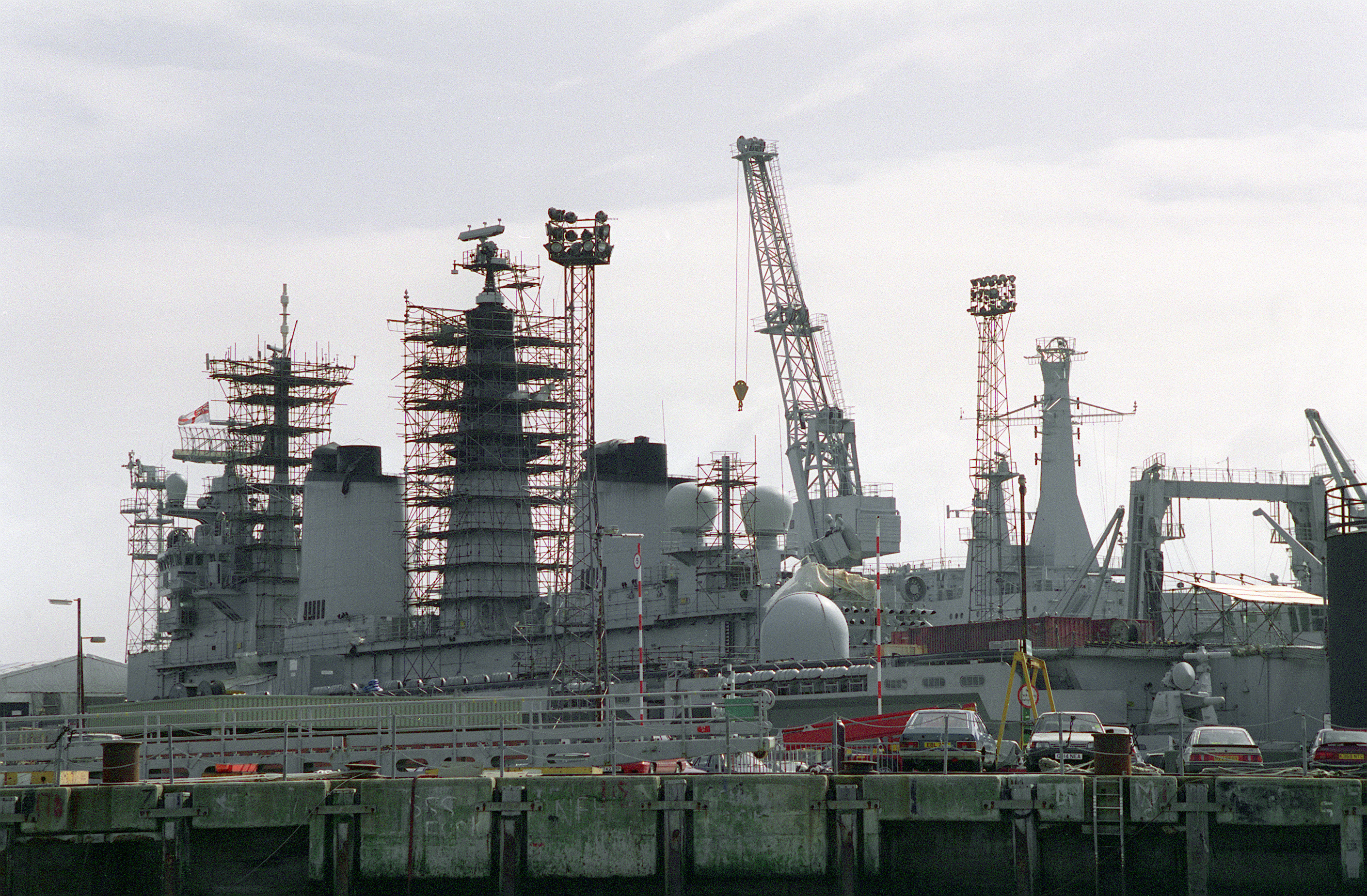 A port quarter view of the aircraft carrier HMS INVINCIBLE (R-05) in a dry dock at the Portsmouth Naval Base under going overhaul and modernization. Note the large amount of scaffolding erected around the ships mast.